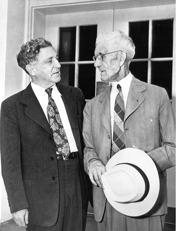 Dr. Francis E. Townsend (right), confers with Sheridan Downey, U.S. Senator from California and Upton Sinclair's running mate in the 1934 gubernatorial campaign.